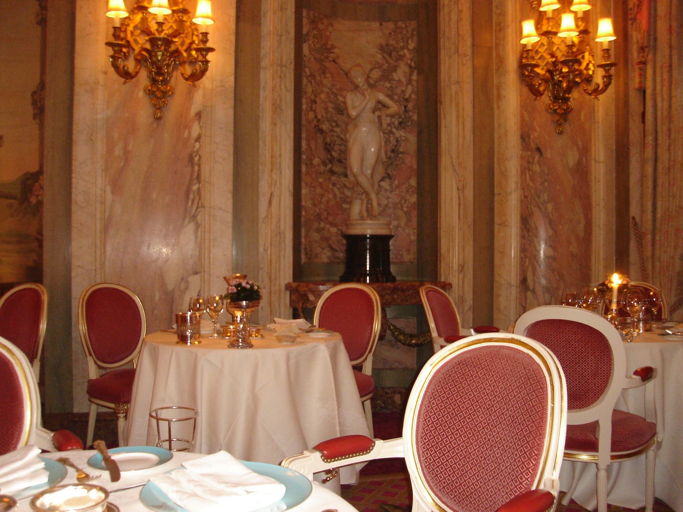 The Palm Court at the Ritz Hotel